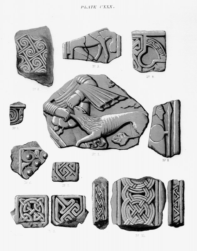 Engraving illustrating thirteen fragments of carved Pictish stones, decorated with knot and key patterns, images of warriors, and an image of King David wrenching open the jaws of a lion.